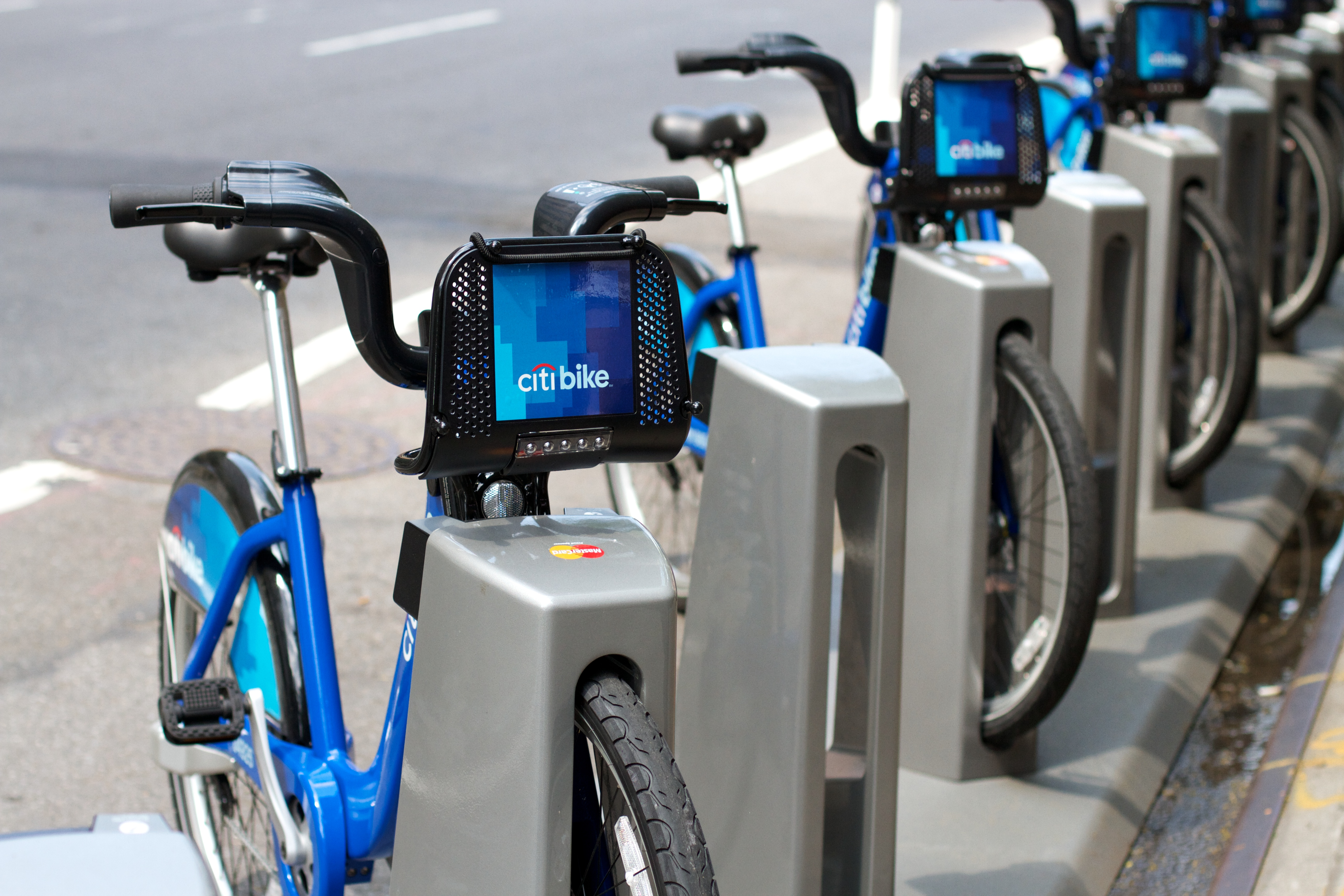 Citi Bike docking station in New York City